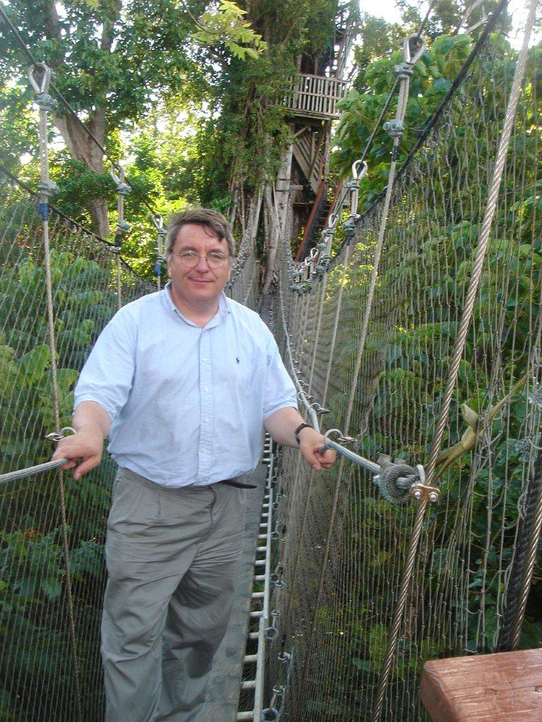 Paul Alan Cox, Samoa, rain forest canopy